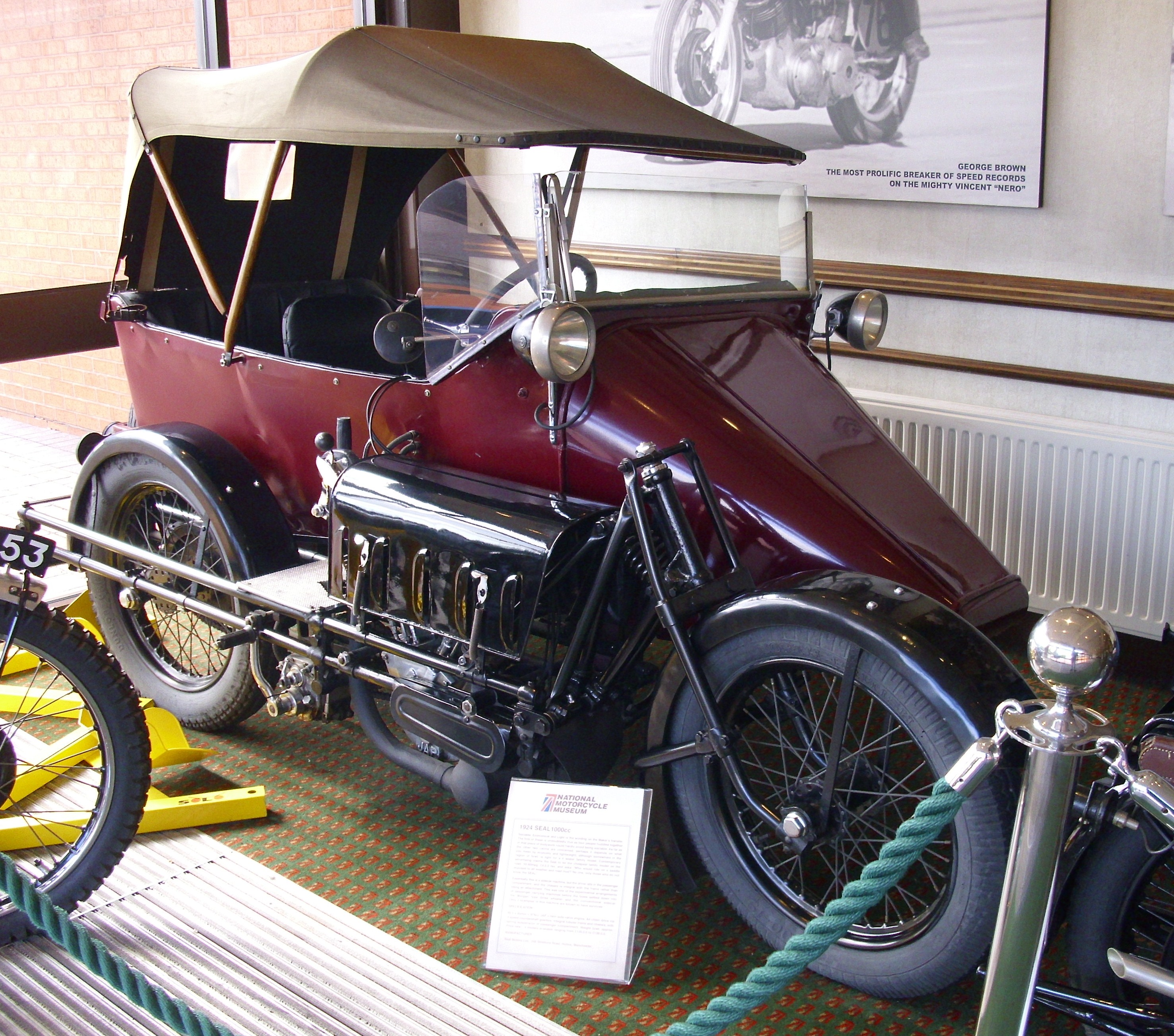 Seal 1924